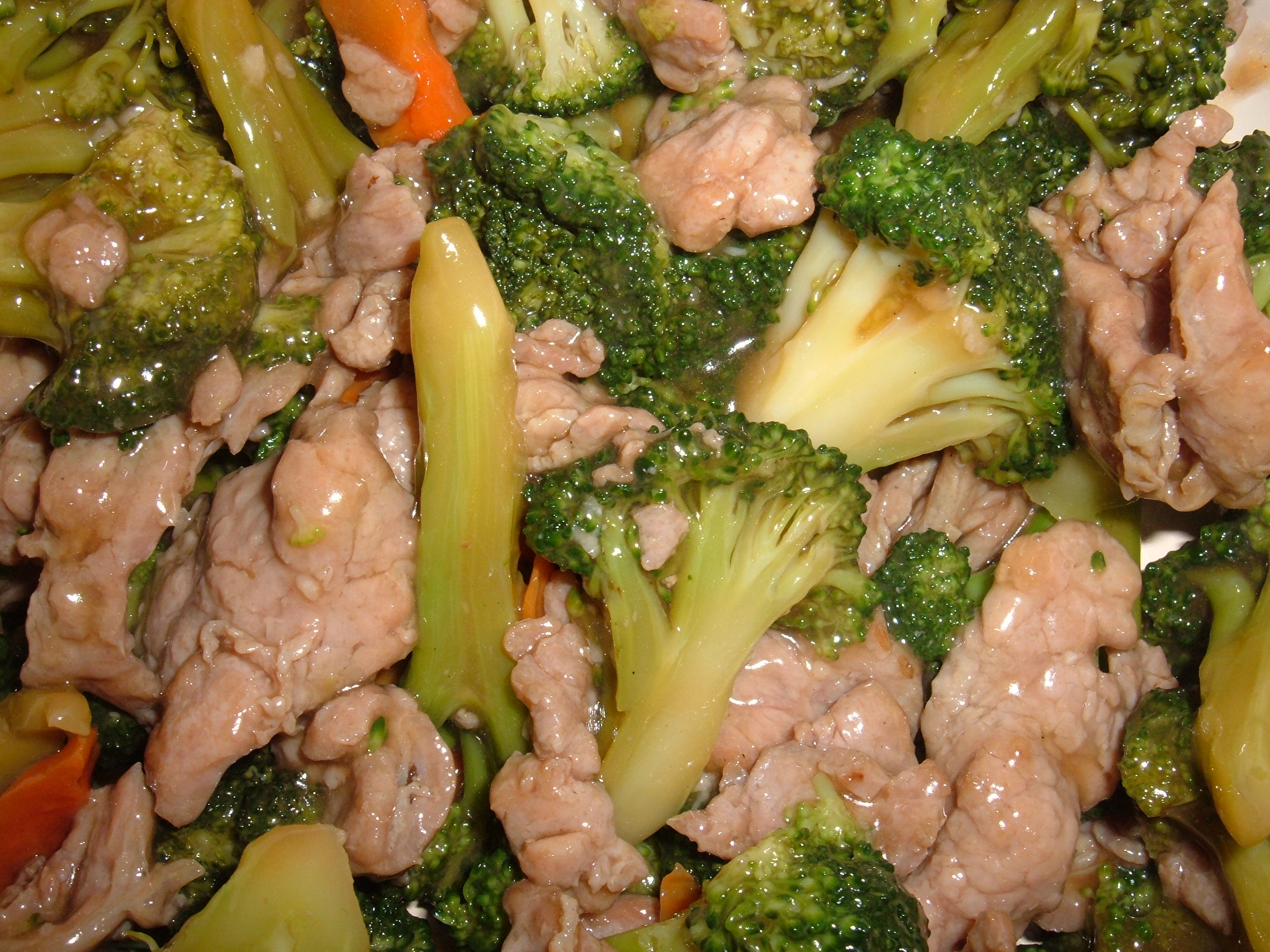 Beef with broccoli